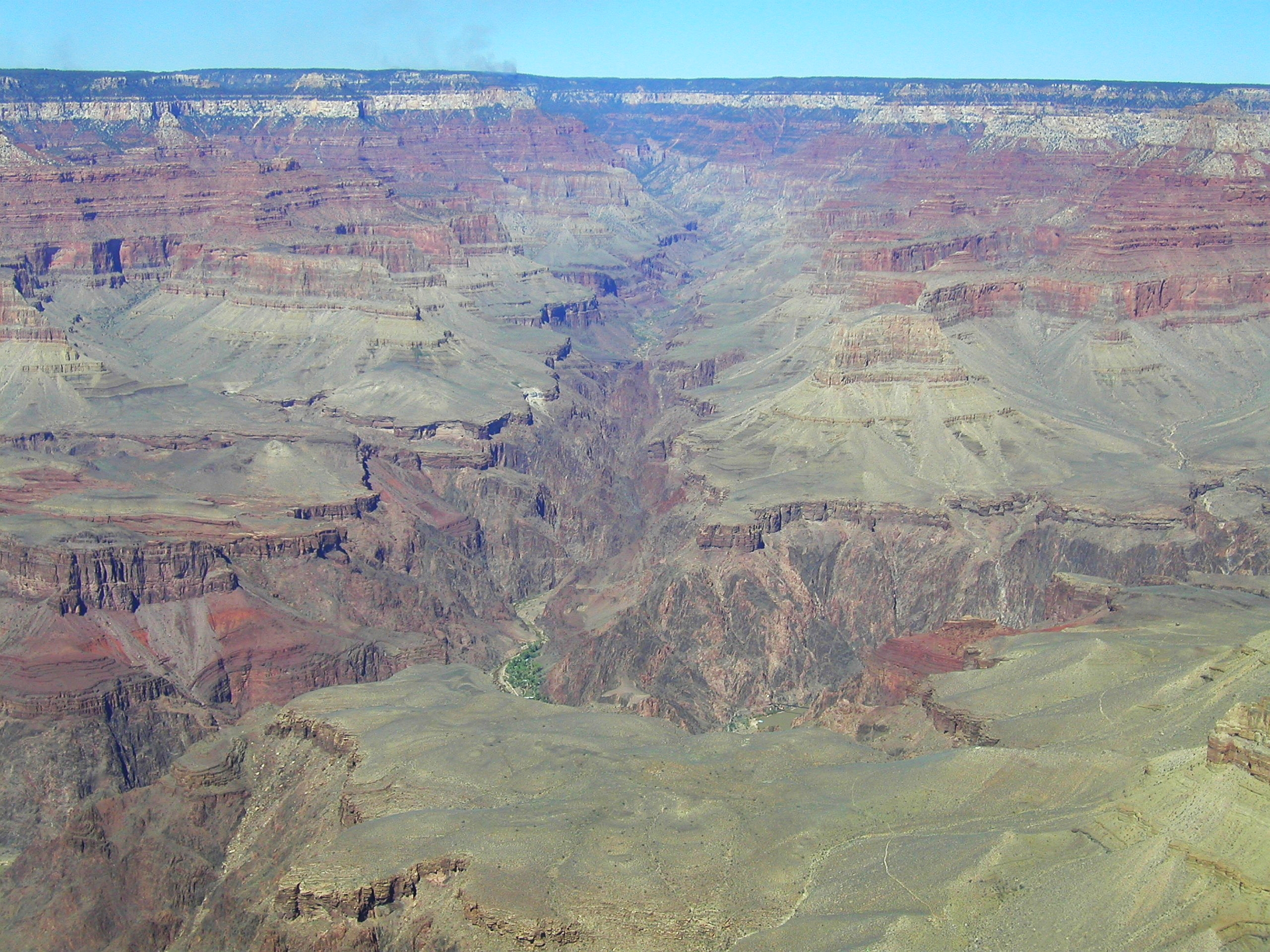 Grand Canyon, Bright Angel Canyon at Granite Gorge. (view north)--The southwest section of Br. Angel Can, south of Phantom Creek is a sub-fault section, upside-to-the-west normal fault (but a small 3-sub fault block). The lowest 4 members of the (6-member) Unkar Group, upon Vishnu Schist, occur in this uplifted "horst-type" section. The Unkar Group is geologically paleo-deposited at an angular unconformity, dipped about 15 degrees. The top of the layers, were eroded to flatness, by an erosion unconformity, but the erosion resistant Shinumo Quartzite, was an "island", with Tapeats Sandstone, laid only around the island perimeter. (shown in other parts of the photo, up the Bright Angel Canyon, for instance); the erosion unconformity is named, the Great Unconformity, also found at other selected locales in Arizona; also south Nevada. (The 6-unit Unkar Group for example, is a "conformity", with no erosional sequences, interspersed.)